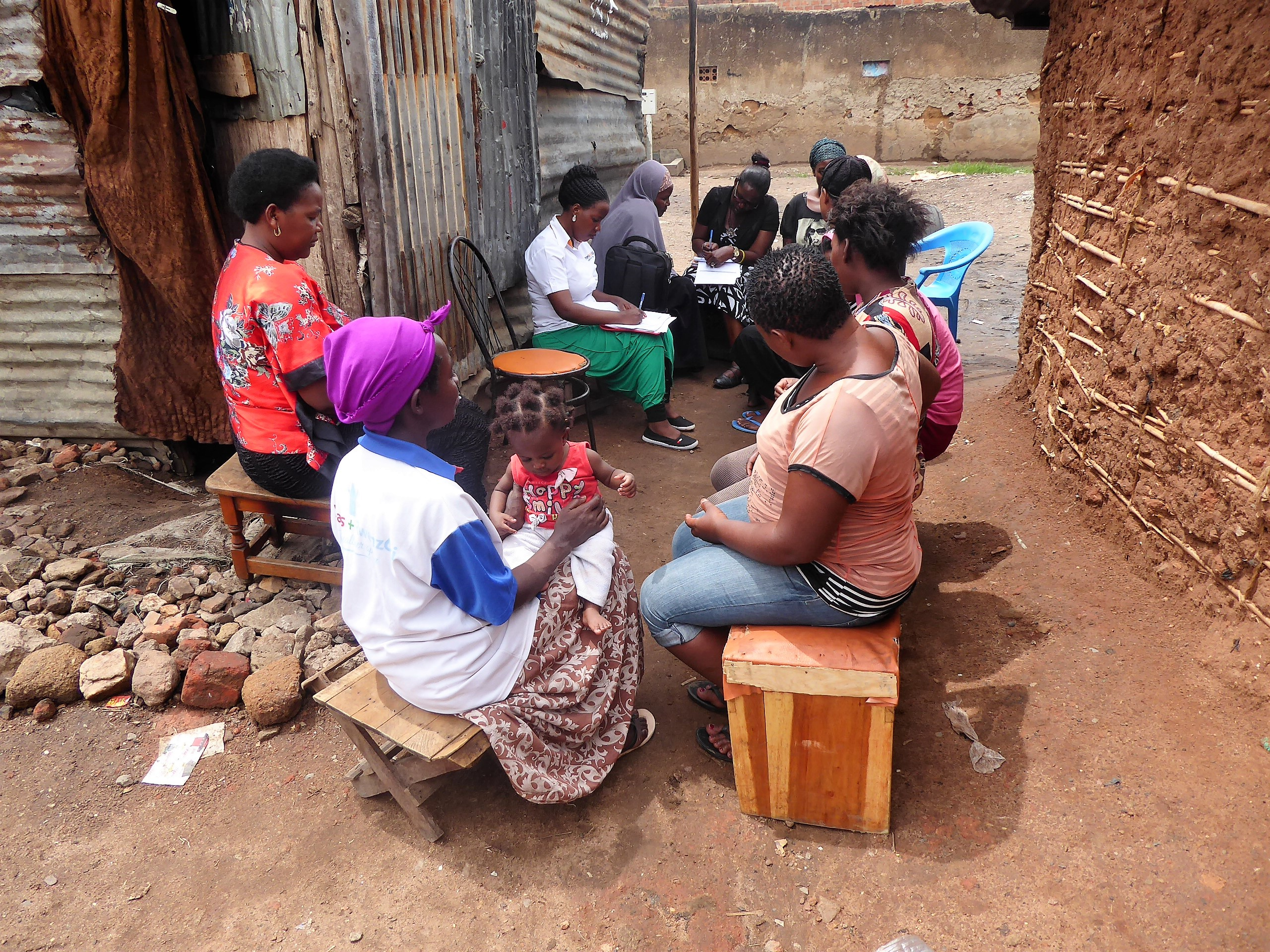 This young social worker visits Kampala's many slums, organizing women who have no hope into successful self-help groups. This is an image of "African people at work" from Uganda